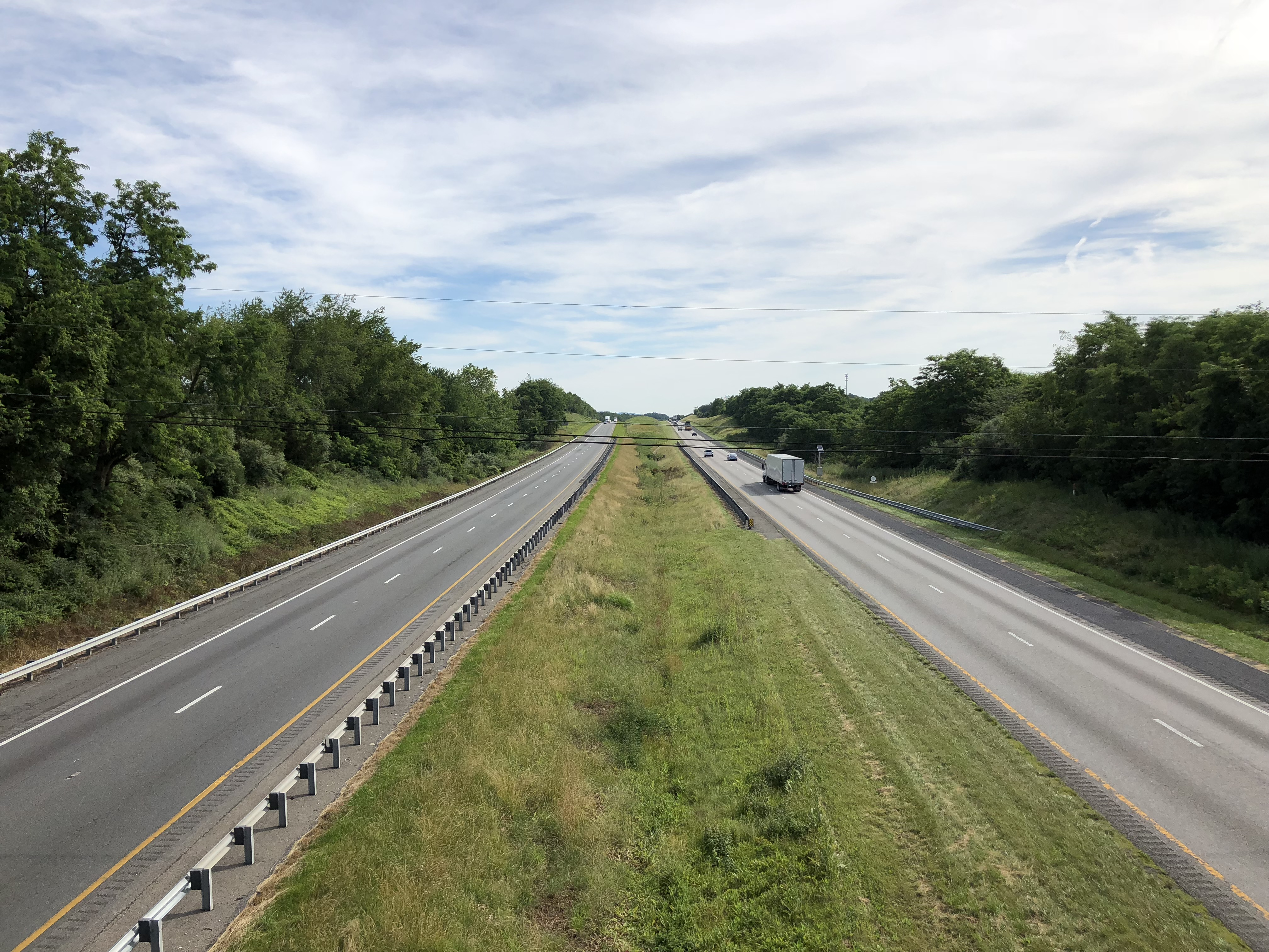 View east along Interstate 64 and north along Interstate 81 from the overpass for Virginia State Route 620 (Spotswood Road) in Spotswood, Augusta County, Virginia